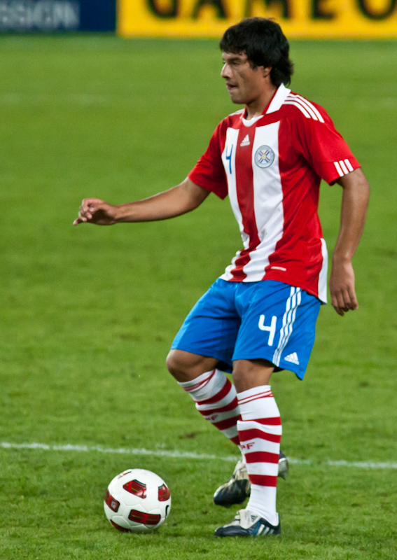 Cesar Benitez playing for the Paraguay national football team in a friendly match against Australia at the Sydney Football Stadium.